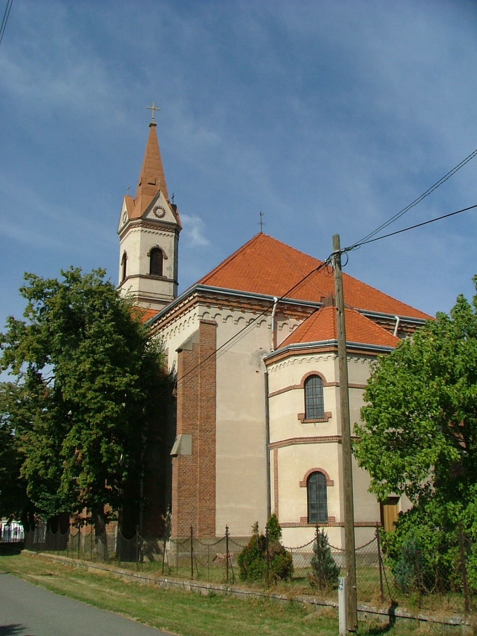 Vadosfa, the lutheran church This is a photo of a monument in Hungary, Identifier: 11808